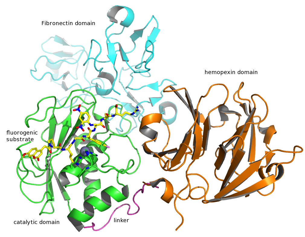 Complete three-dimensional structure of MMP-9 composed of the catalytic, fibronectin and hemopexins domains. (Assembled by superposing the crystallographic structures of the catalytic form PDB code: 4JIJ, fibronectin: 1L6J, linker: 4FVL and hemopexin: 1ITV)